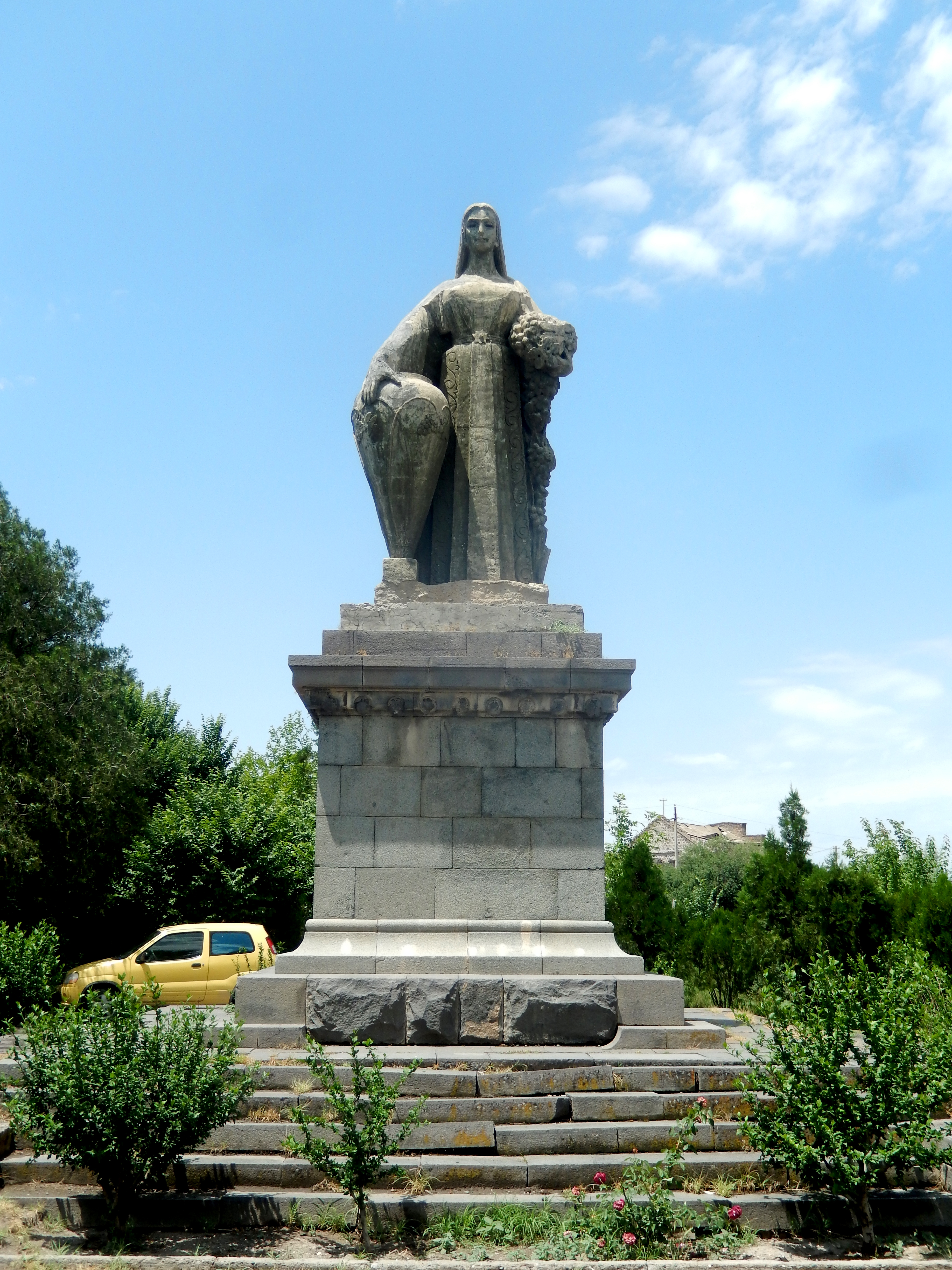 Monument in Mousaler village, Armavir